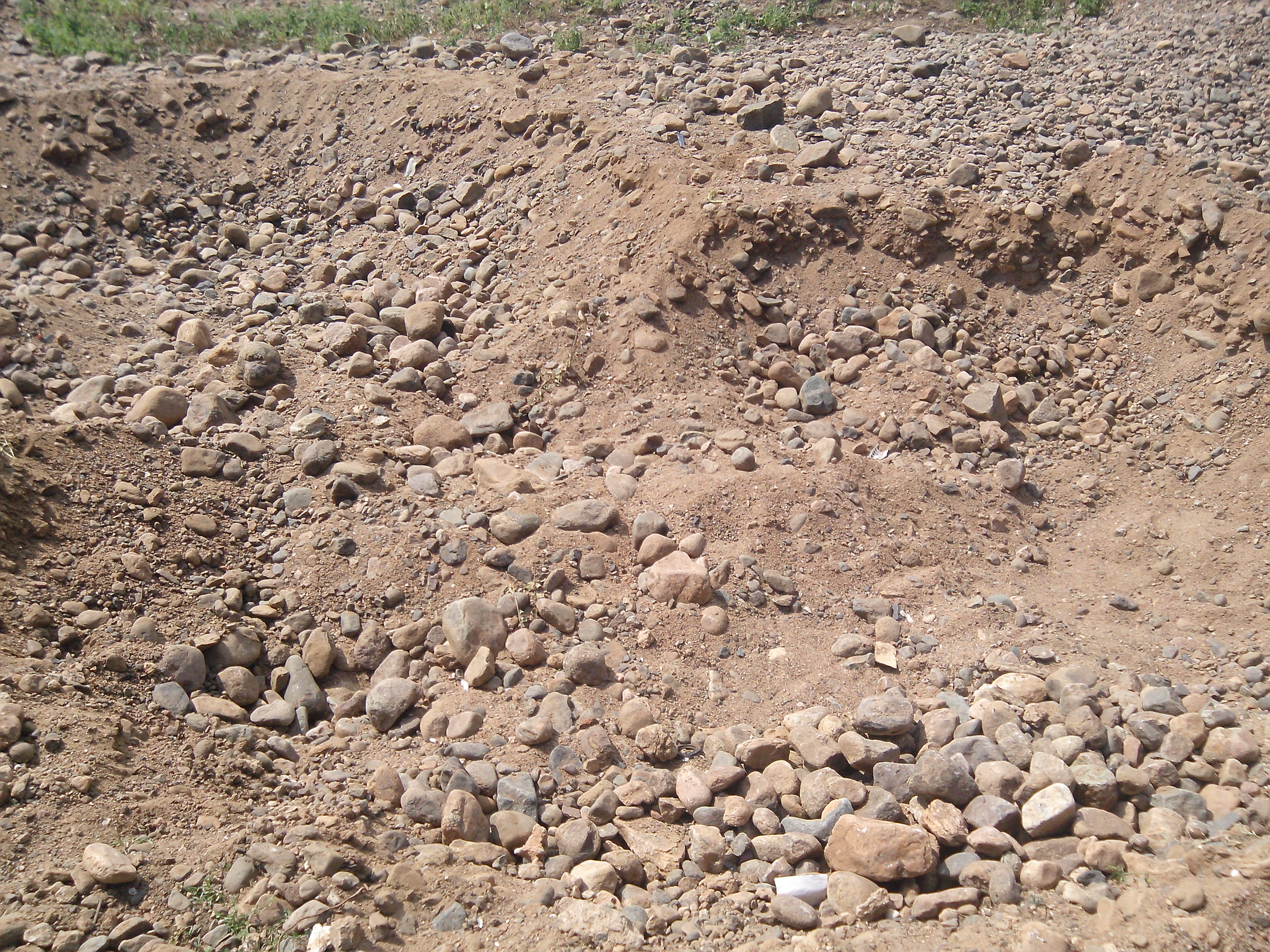 Impact of sand mining in Komugi river. Kacirapalayam, Vilupuram district, Tamil Nadu, India.